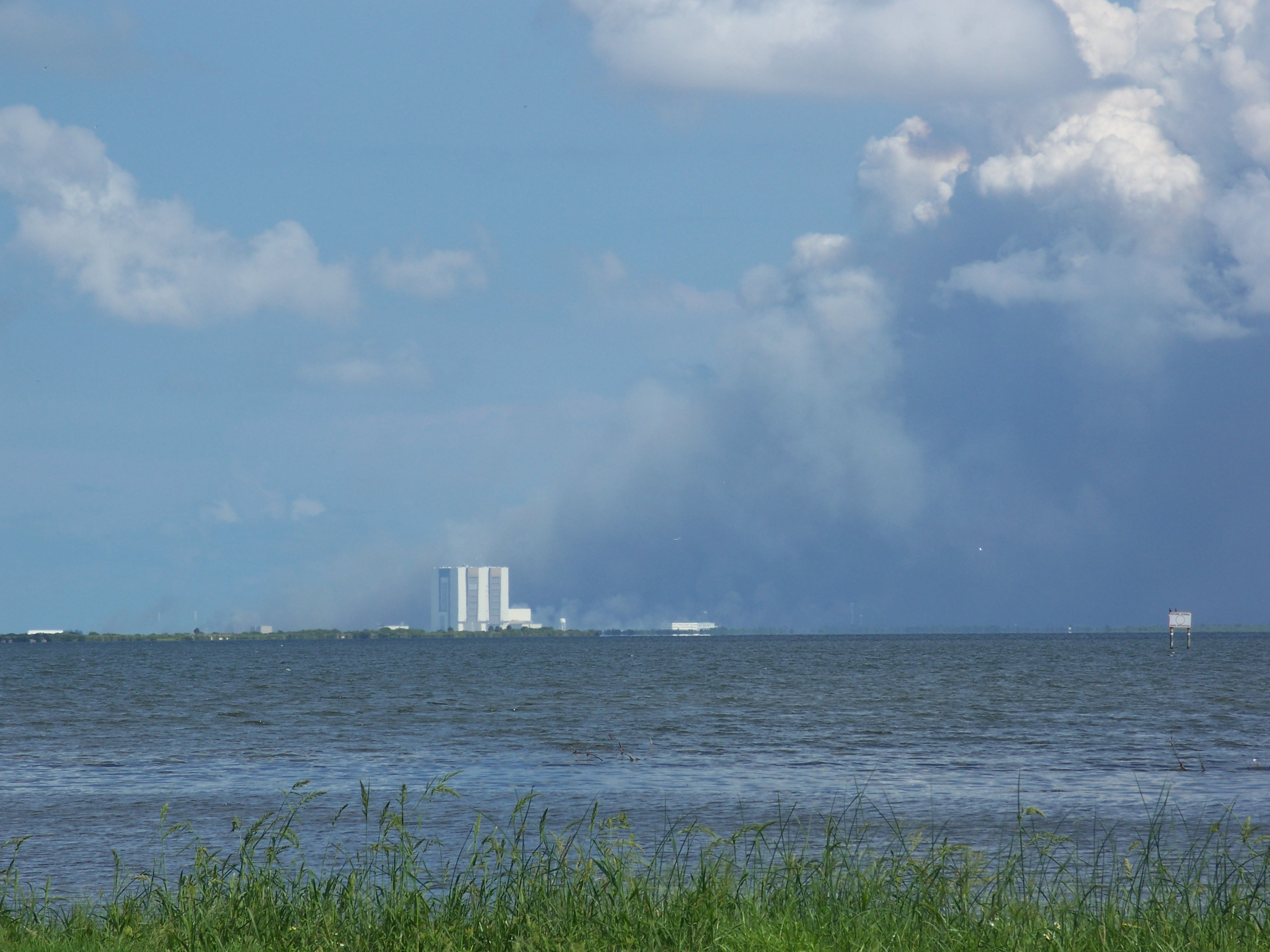 View of Kennedy Space Center, with storm behind it, from Titusville